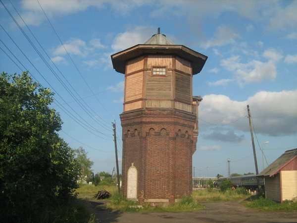 Sonkovo, tower in railway station (Russia). Built in XIX century